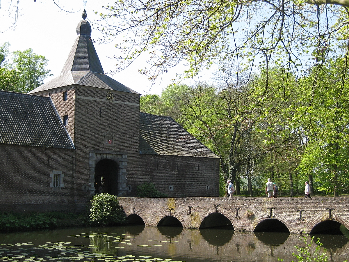 Arcen Park